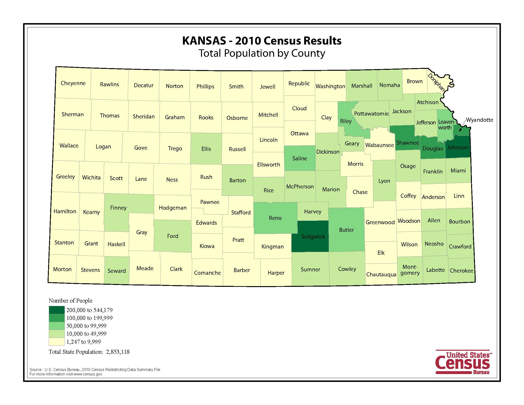 2010 map showing the population density of Kansas